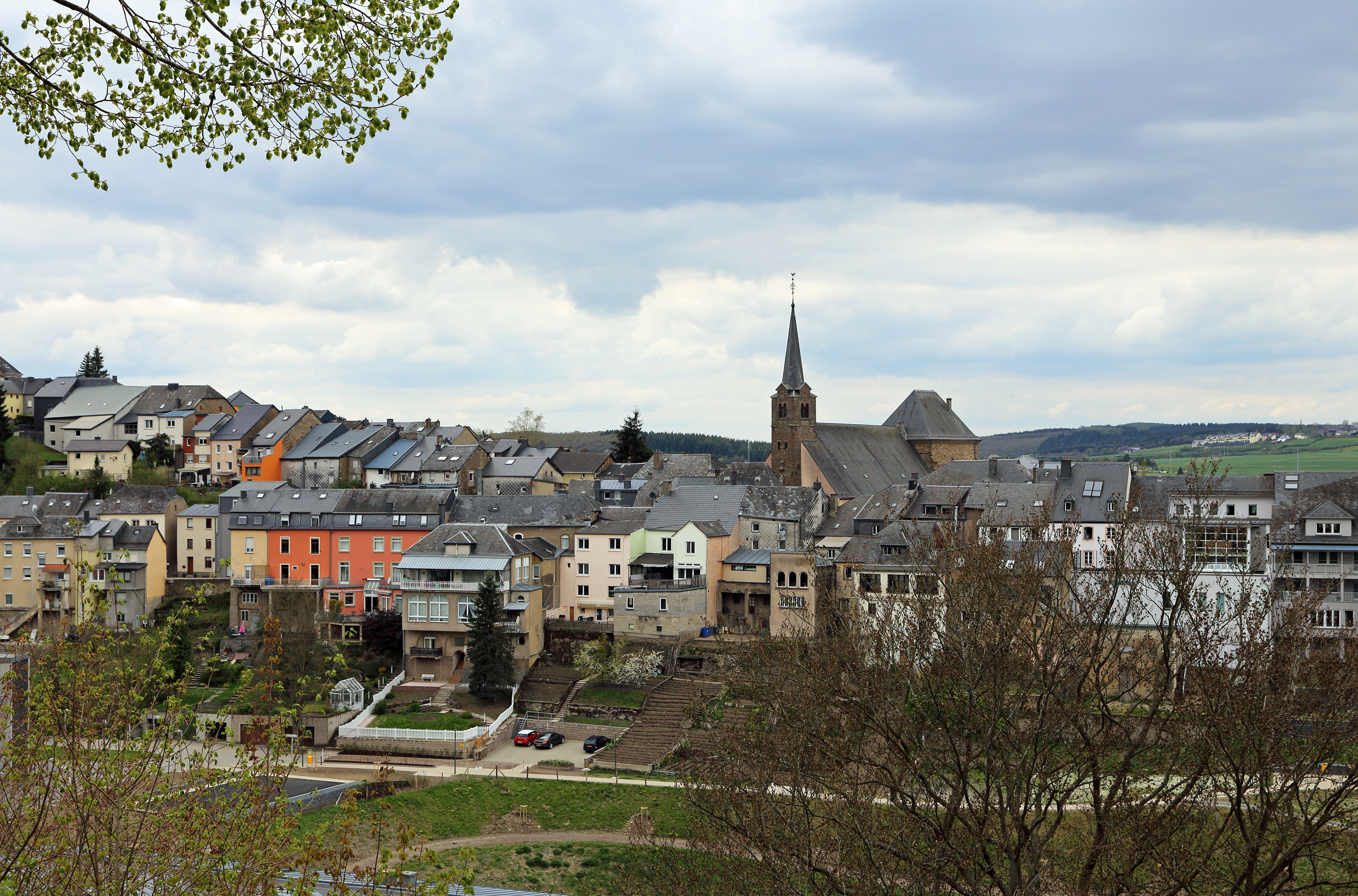 Wiltz (Grand Duchy of Luxembourg): general view